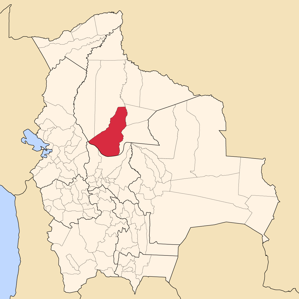 Map of Bolivia showing Moxos province, Beni